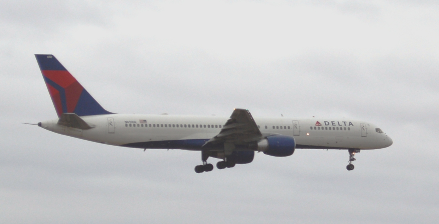 Delta Air Lines' N610DL landing at McCarran International Airport in Paradise, Nevada, U.S.A. This photo was taken on a rainy day; brightness and contrast have been adjusted to bring out colors.